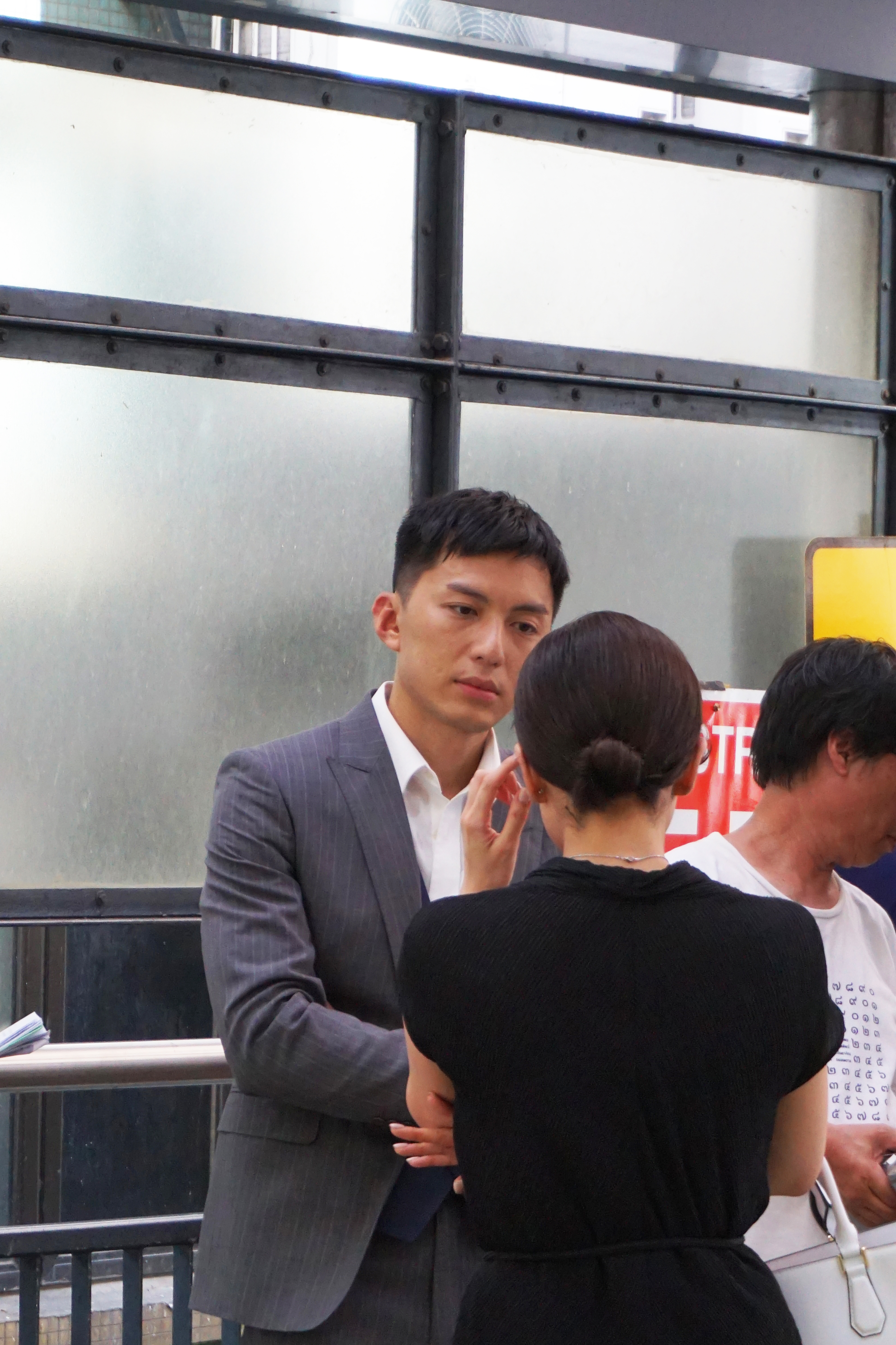 Benjamin Yuen Wai-ho, TVB artist in Hong Kong.